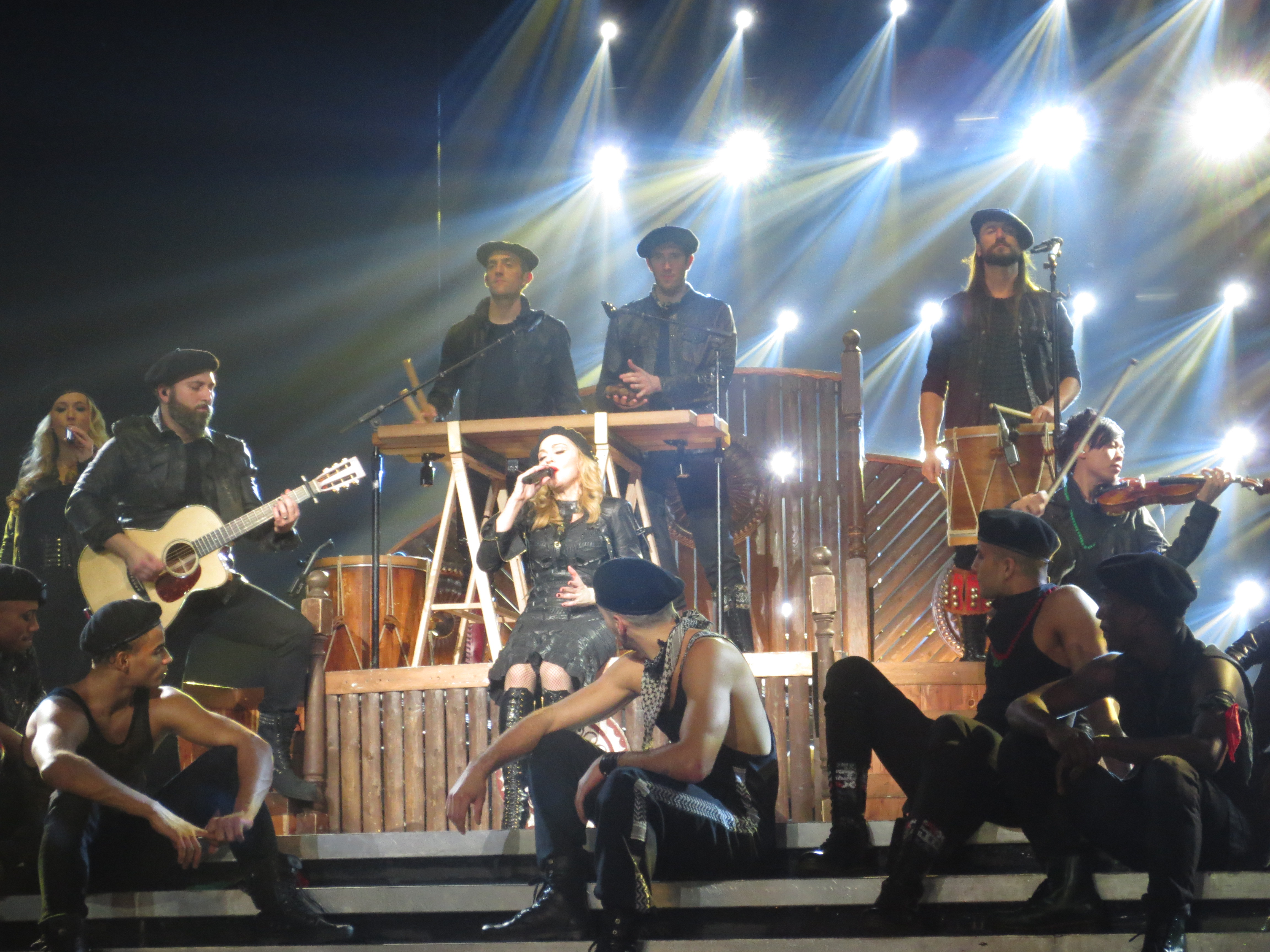 2012 10-25 MDNA Madonna Houston (220)